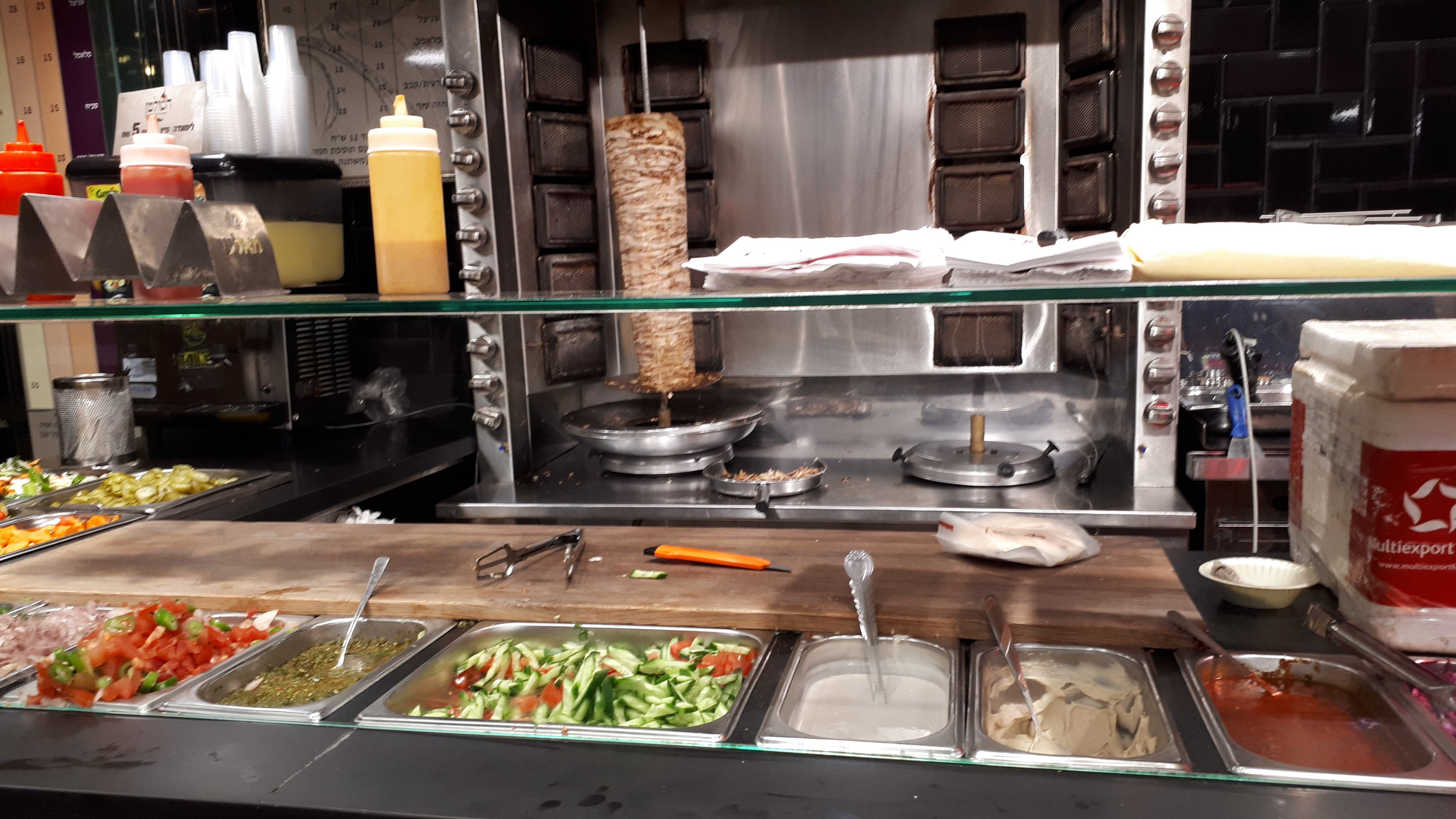 Ramat Gan, December 2017